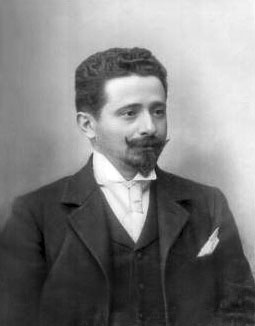 A picture of the Portuguese Republican politician Afonso Costa (c. 1904), later 3 times prime-minister.